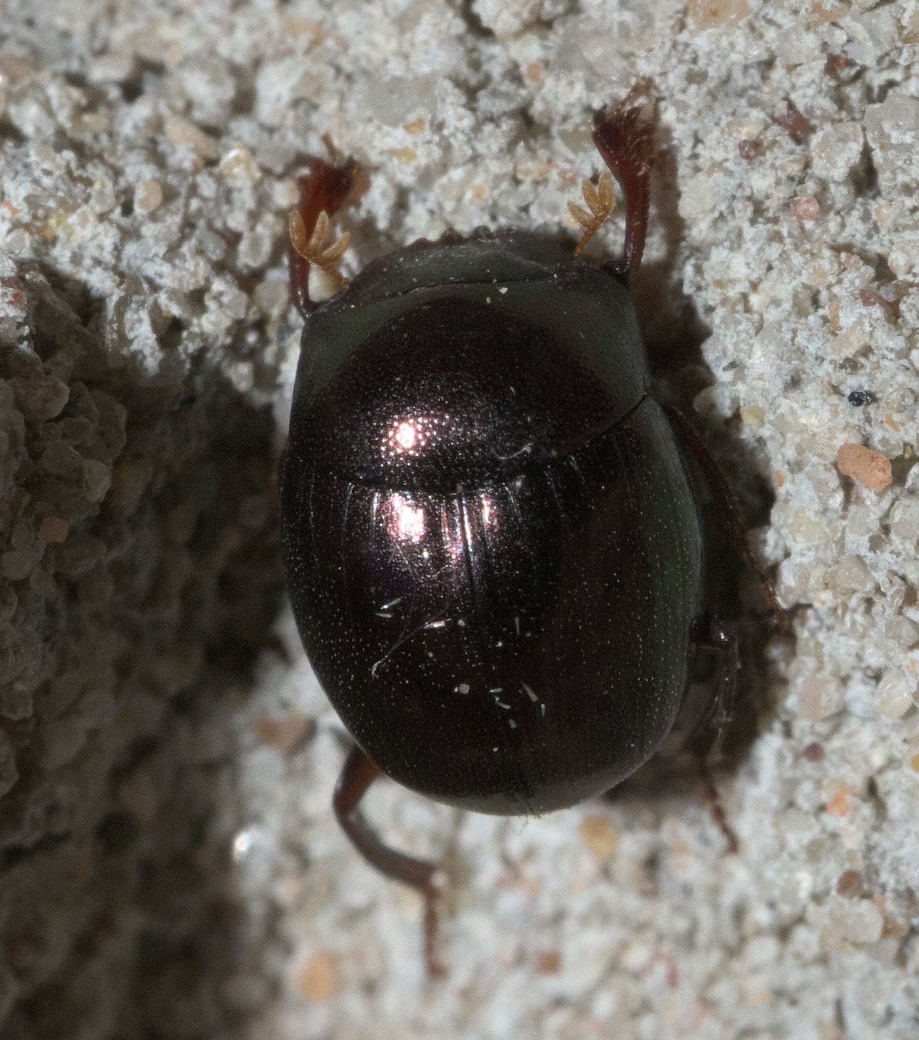 Pseudocanthon perplexus, Subfamily: Dung Beetles, Size: 4.4 mm, ID Confidence: 88